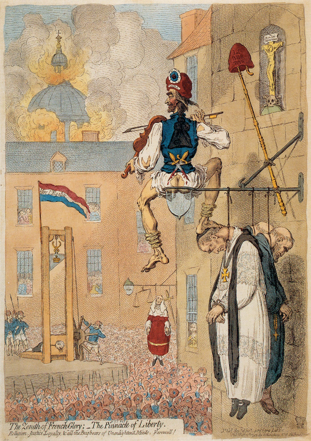 Karikatur „The Zenith of French Glory“ von James Gillray vom 12.02.1793.